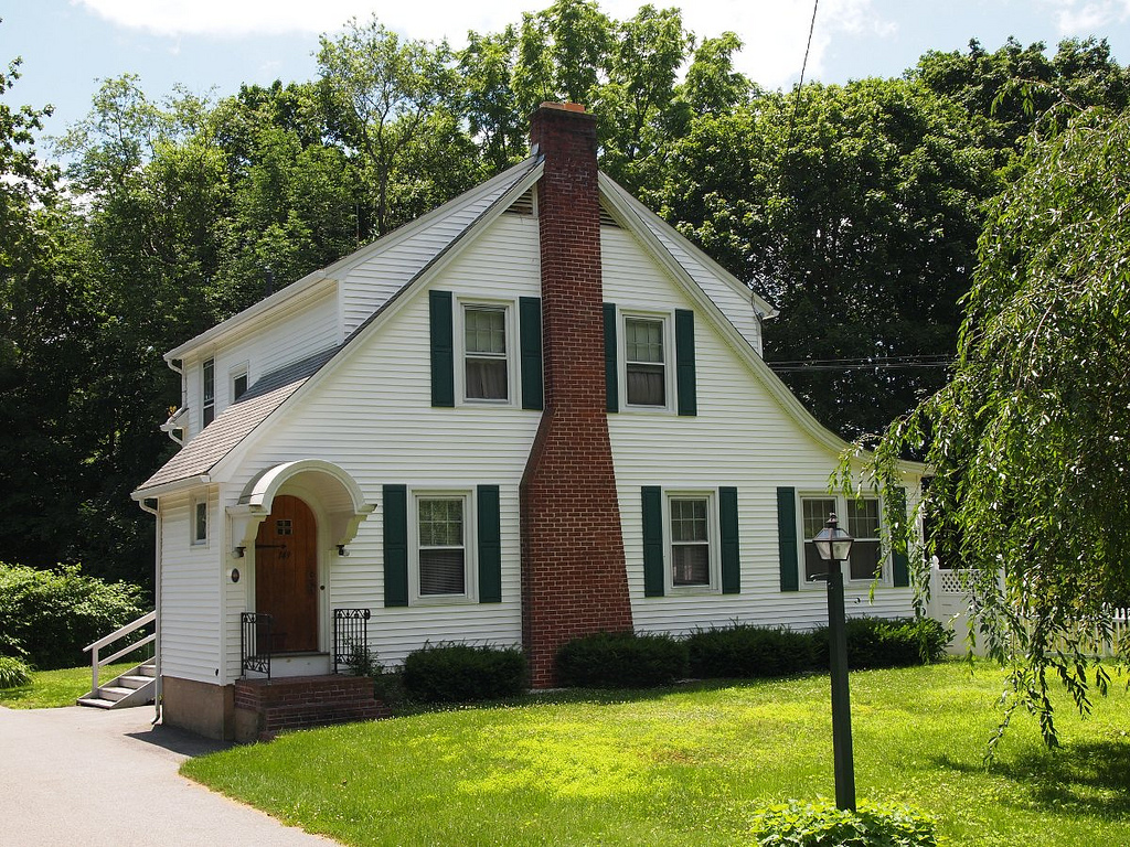 Connecticut - New London County - Waterford NRHP #02000337 NRIS 2011 Jun 30; view SE edit: resize Built in 1936 (Dutch Colonial Revival). Private residence.